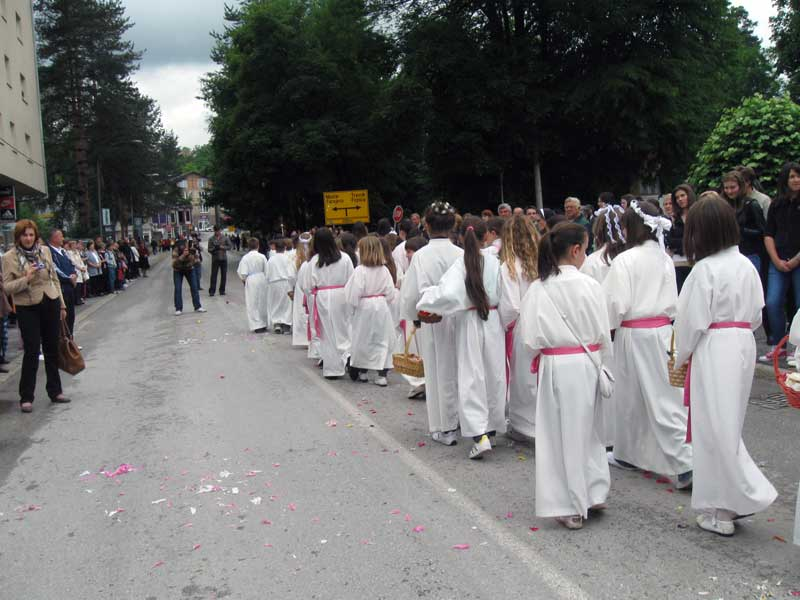 Corpus Christi,procession in Kiseljak